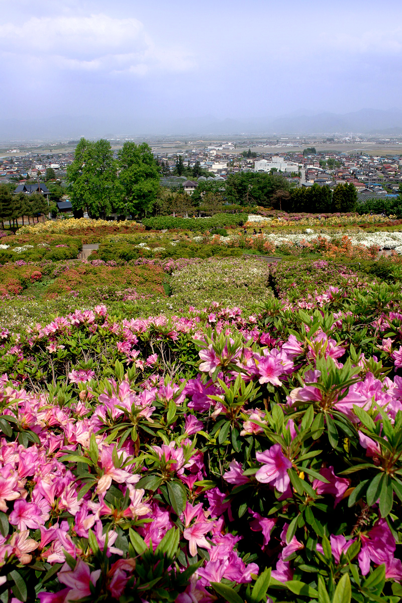 Rhododendron Garden in Sagae Park, Sagae, Japan